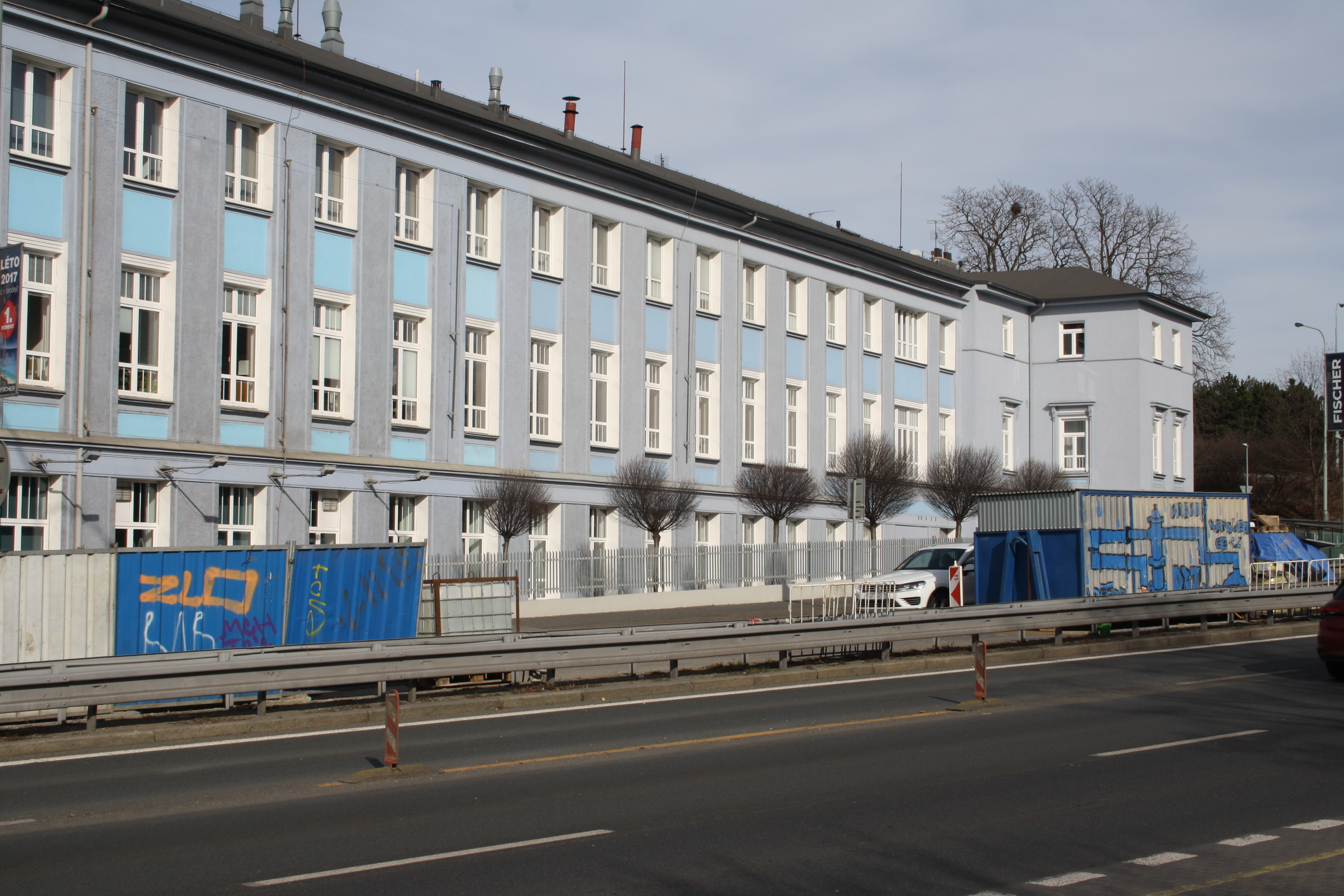 Prague, Liben, Czech Republic, V Holesovickach street